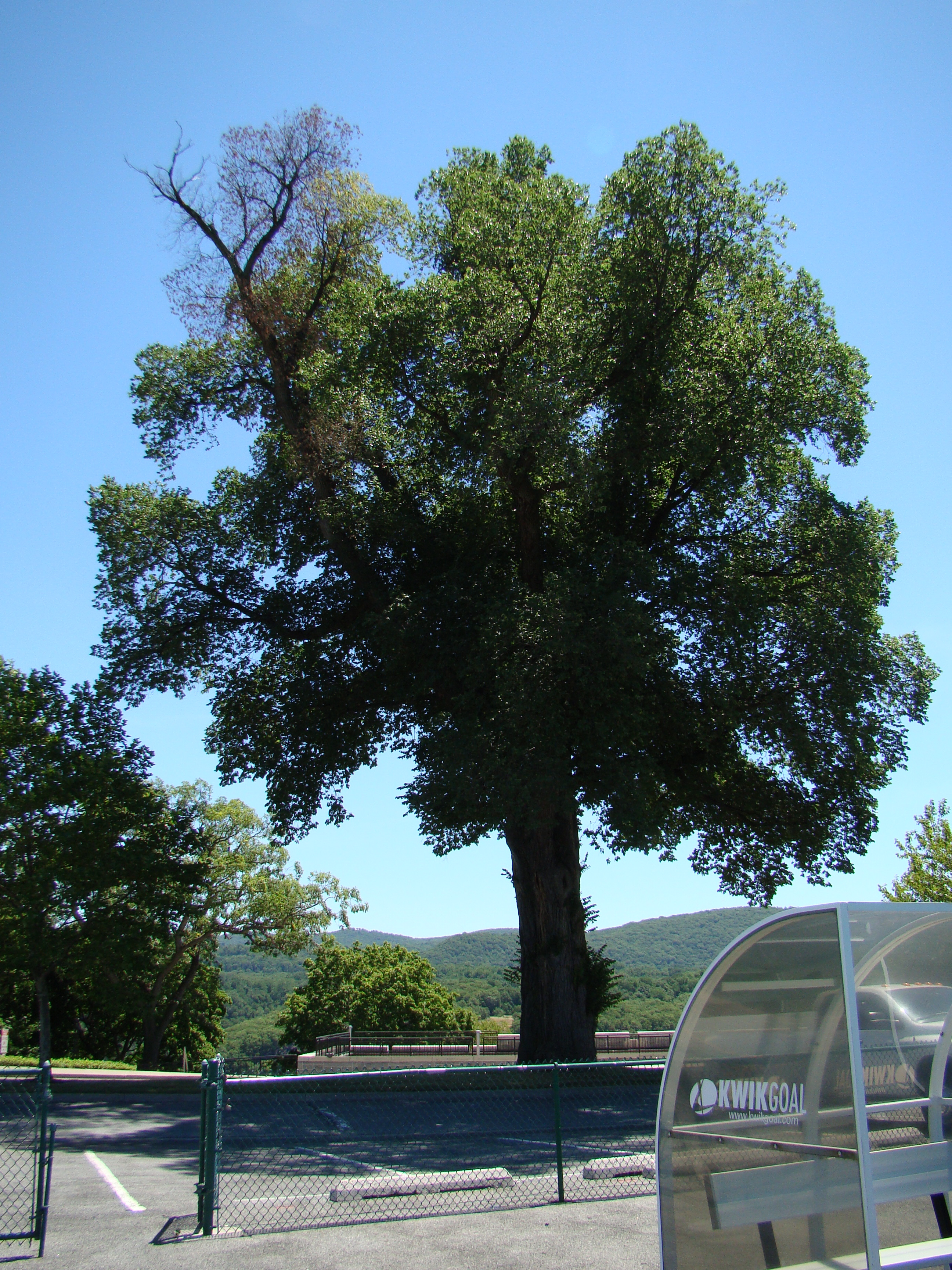 A large English Elm infected with Dutch Elm Disease at West Point, NY June 2010